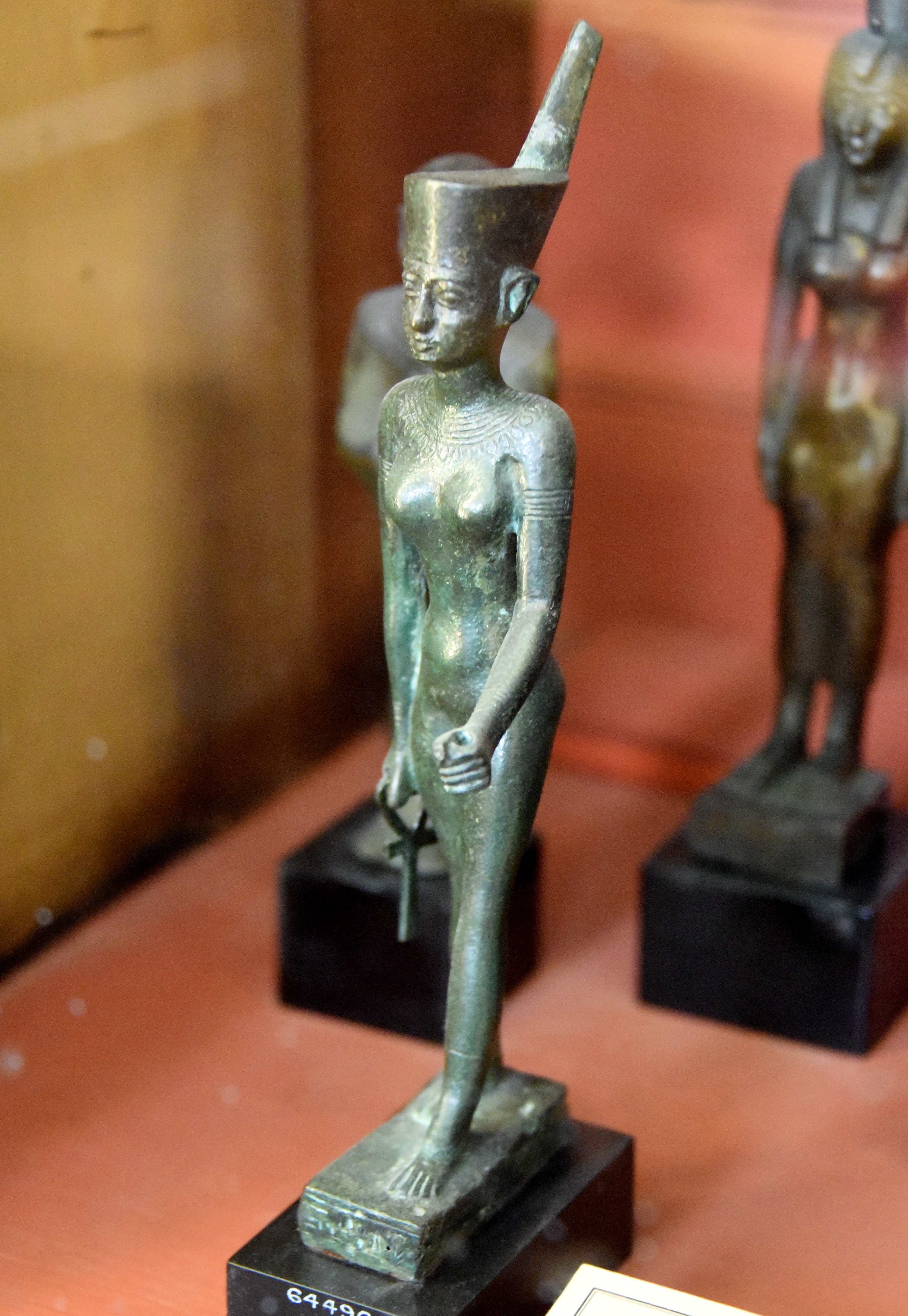 Bronze statuette of Neith. She wears the Red Crown of Lower Egypt. The right arm holds an Ankh sign and her left arm is outstretched. The hieroglyphic inscriptions, partially erased, mention the name of Padihor. From Egypt. Late Period. The British Museum, London